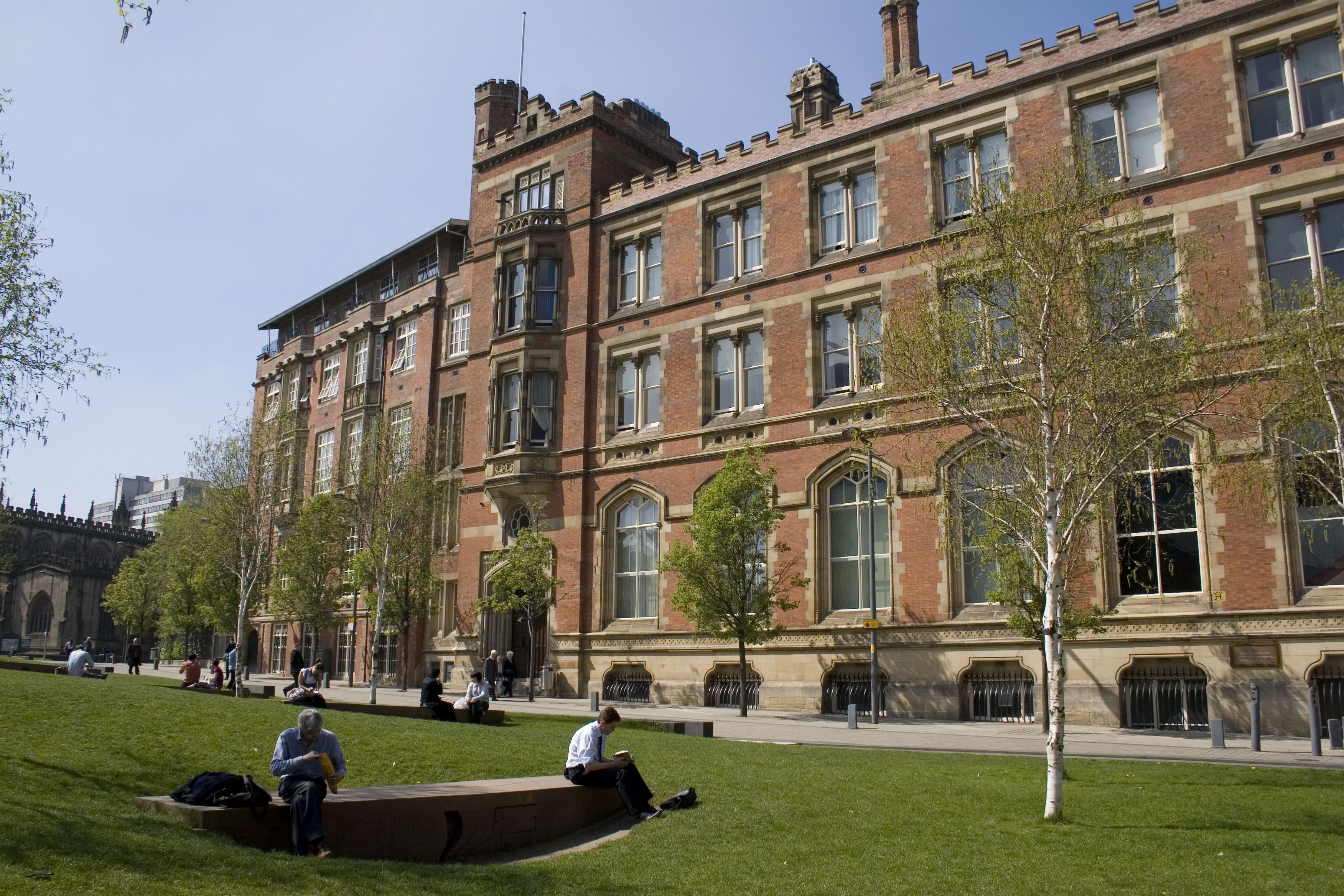 The exterior of Chetham's School of Music, in Manchester